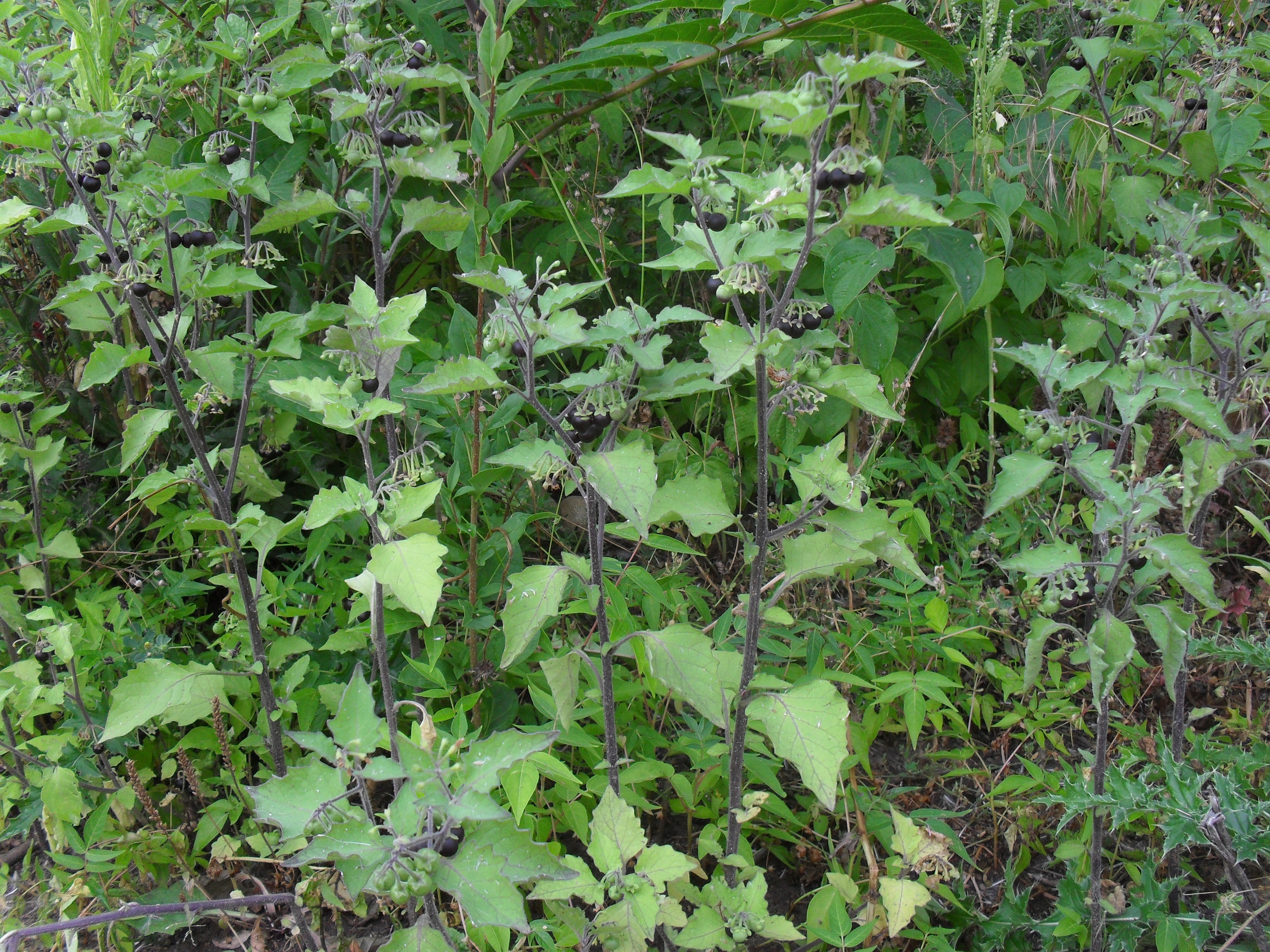 Solanum nigrum with fruits